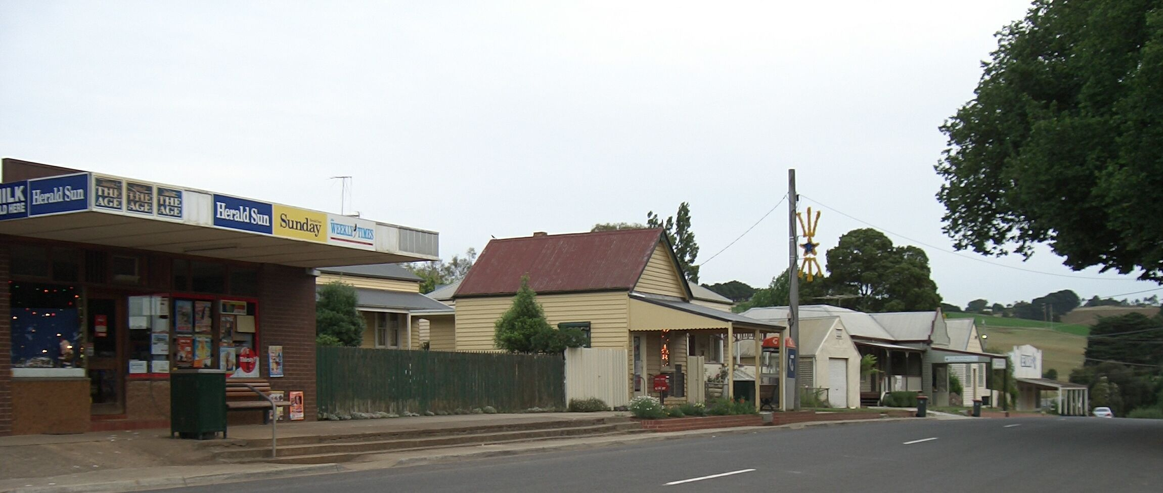 This is literally the extent of Thorpdale's main street, Station St, these days. Including: milk bar (far left), post office (red post box and phone booth at the front), bakery (hidden) and supermarket (far right, closed at the time of this photo, and unlikely to be re-opened). The park and war memorial are on the opposite side of the road to the near buildings, and the pub is opposite the now defunct supermarket. Also note the festive Christmas decoration on the street lamp.